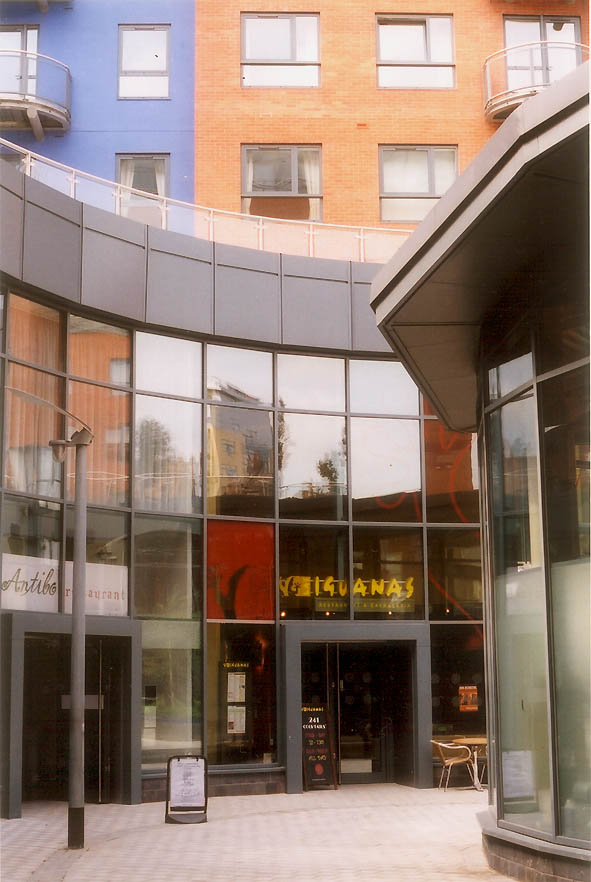 West One Development, Devonshire Green, Sheffield, South Yorkshire, England